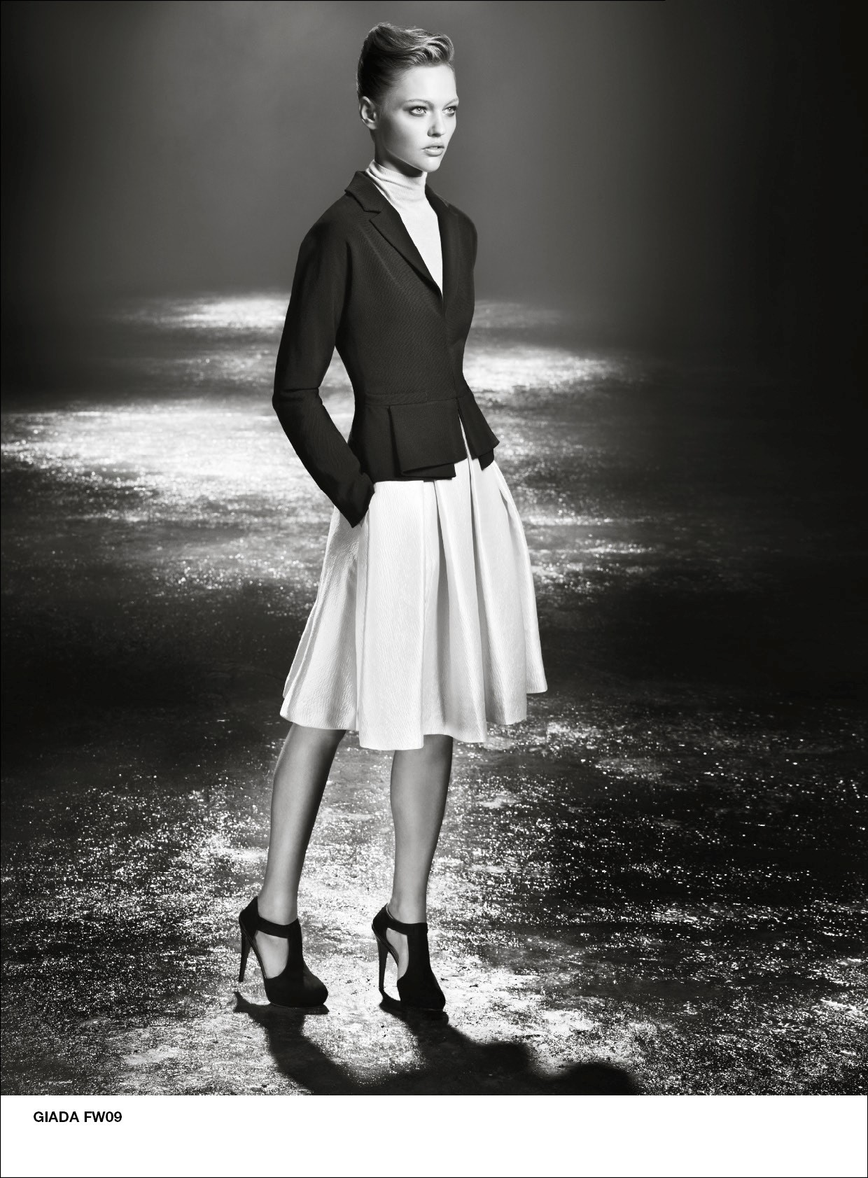 Giada Advertising Campaign FW09